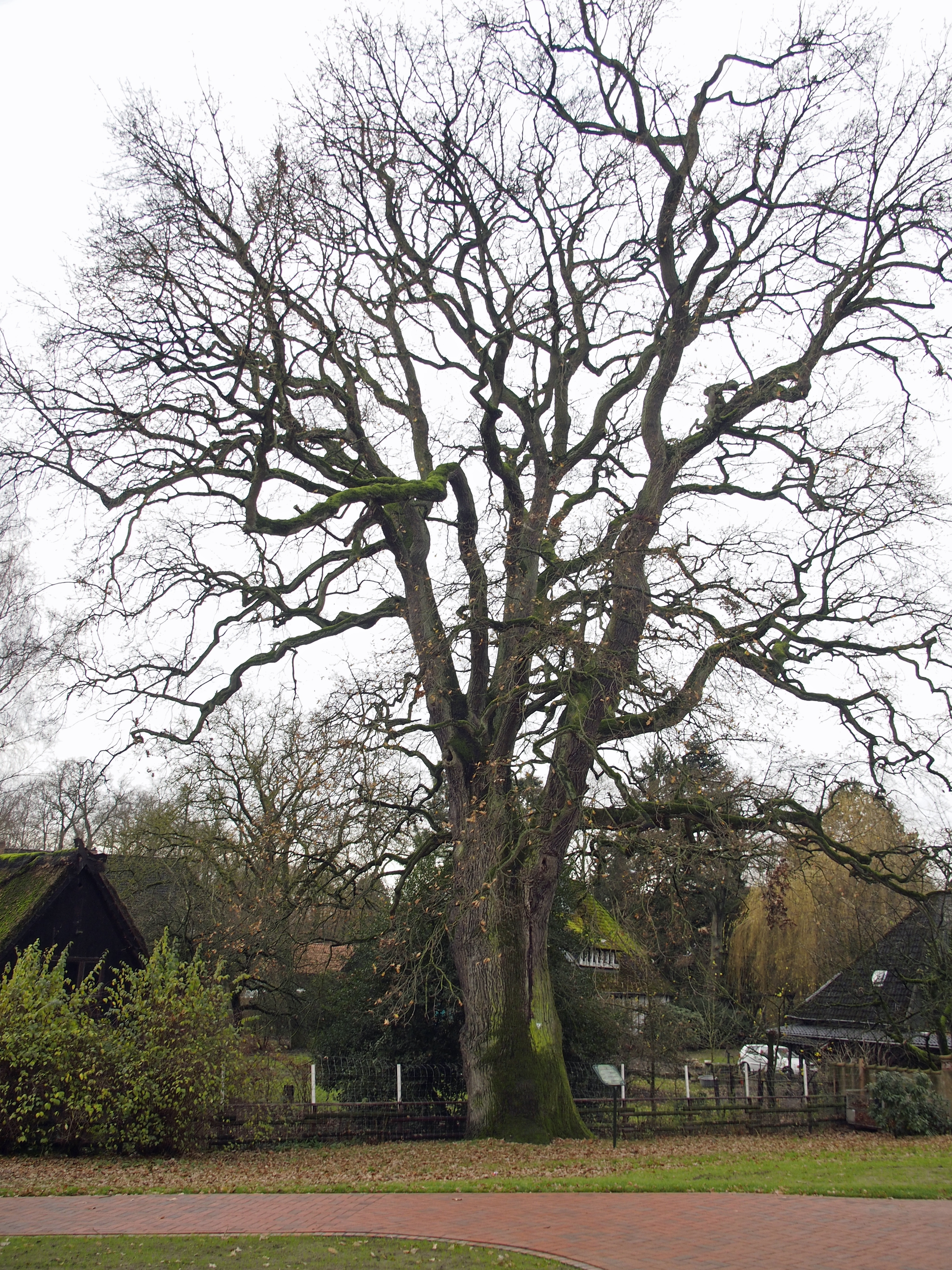 Old oak near Church of St. Lambertus, Lower Saxony, Germany.